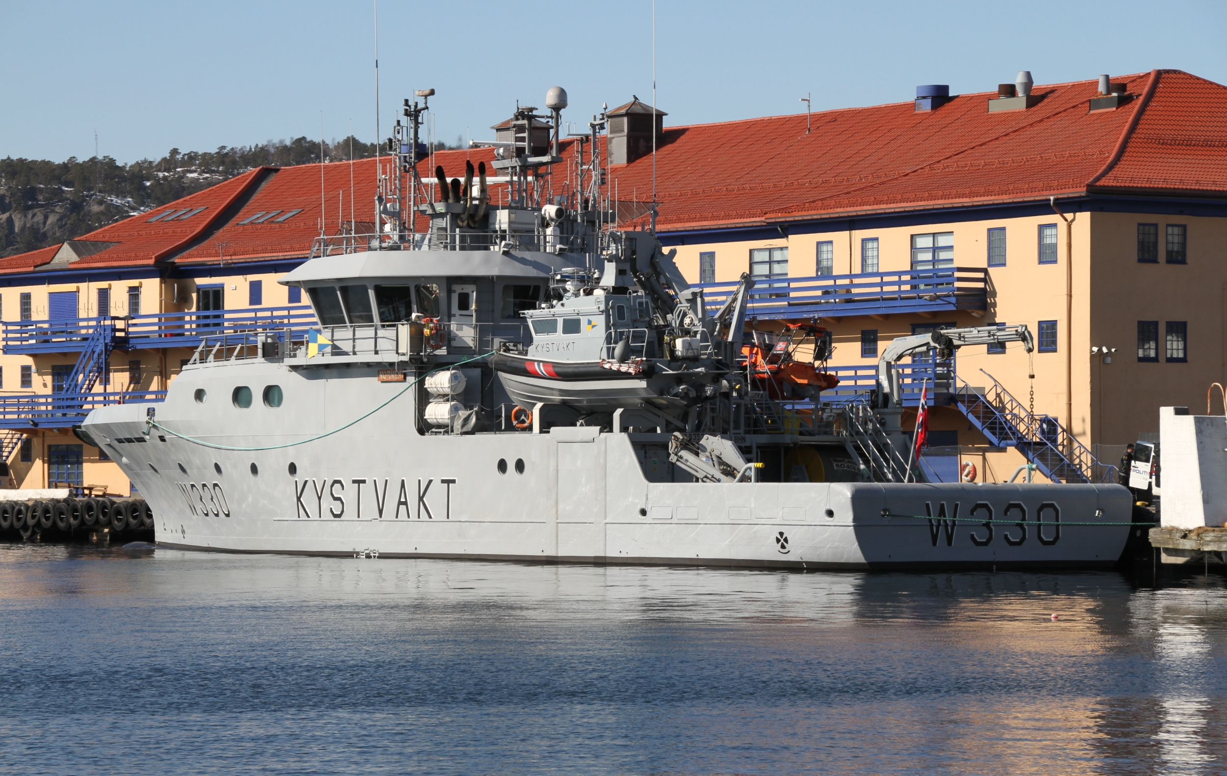 Image of the norwegian Coast Guard ship KV "Nornen", at anchor in Kristiansand (Norway)